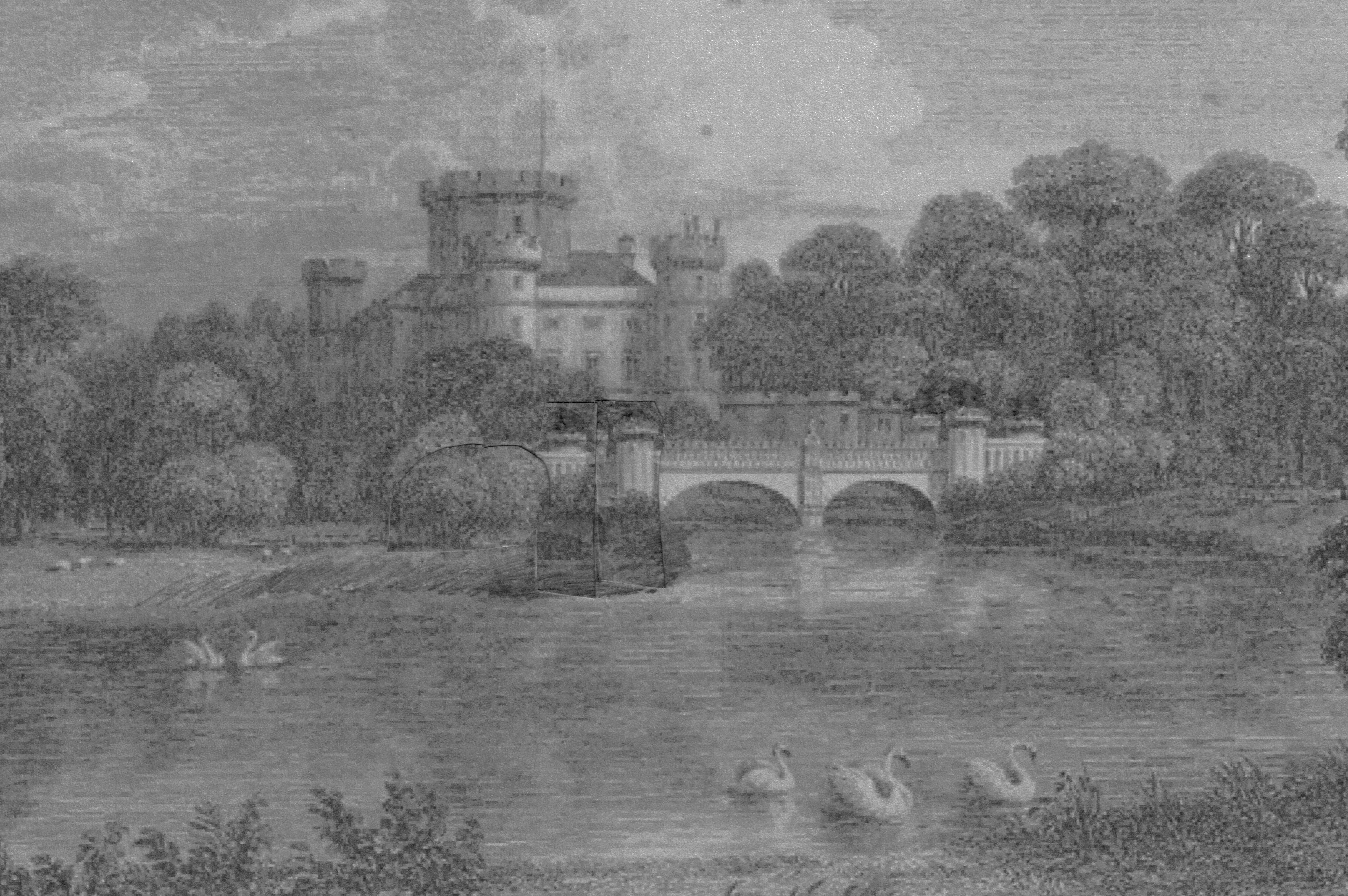 A composite picture of the old and new Tournament Bridges, Irvine, Scotland.